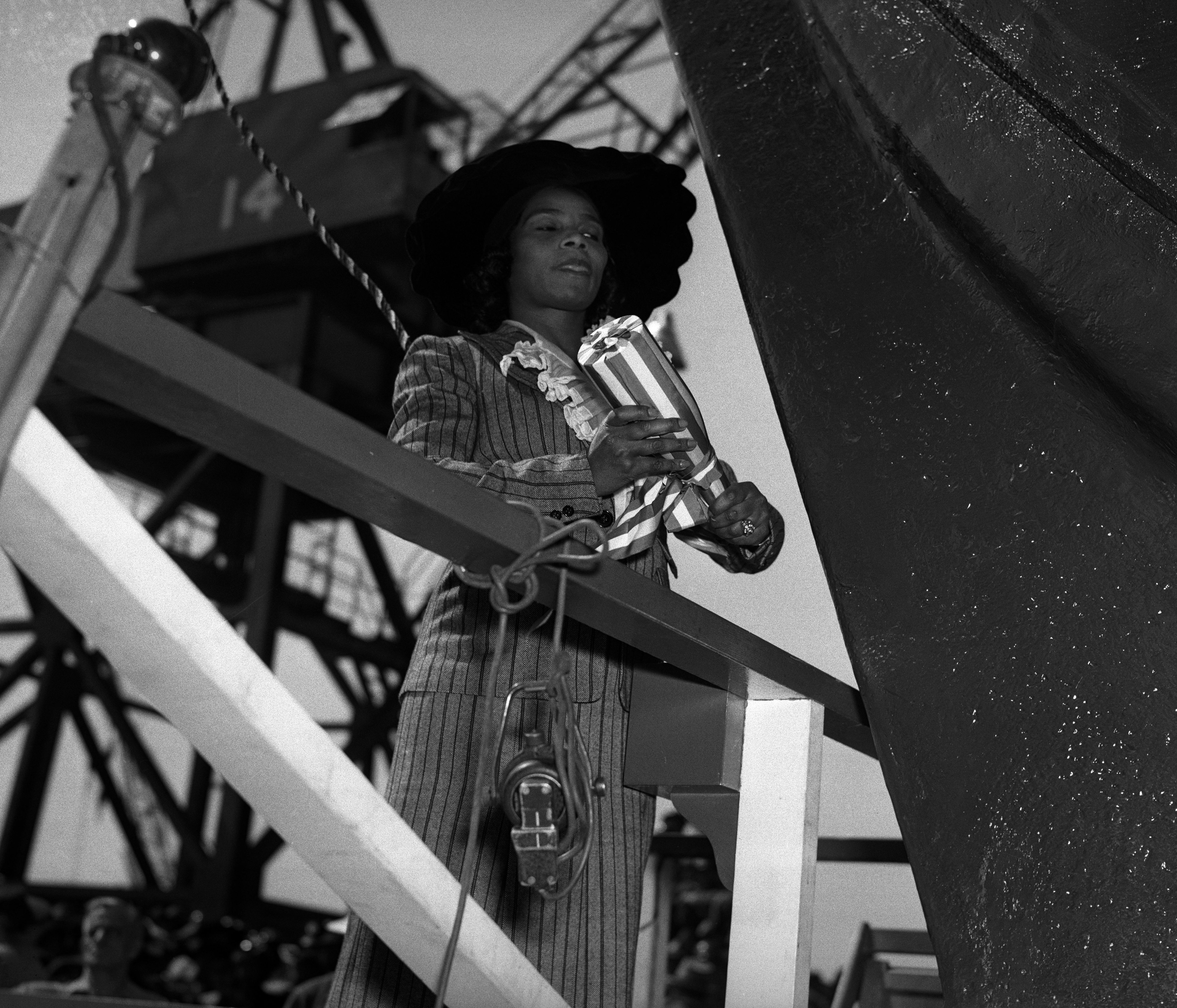 Marian Anderson, the great American opera contralto, prepares to christen the Booker T. Washington. The Booker T. Washington was the first major oceangoing vessel to be named after an African American. She was built by the California Shipbuilding Corporation on Terminal Island, and launched in 1942.